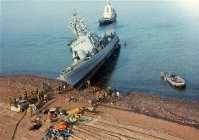 Grounded Israeli missile boat getting ready to refloat